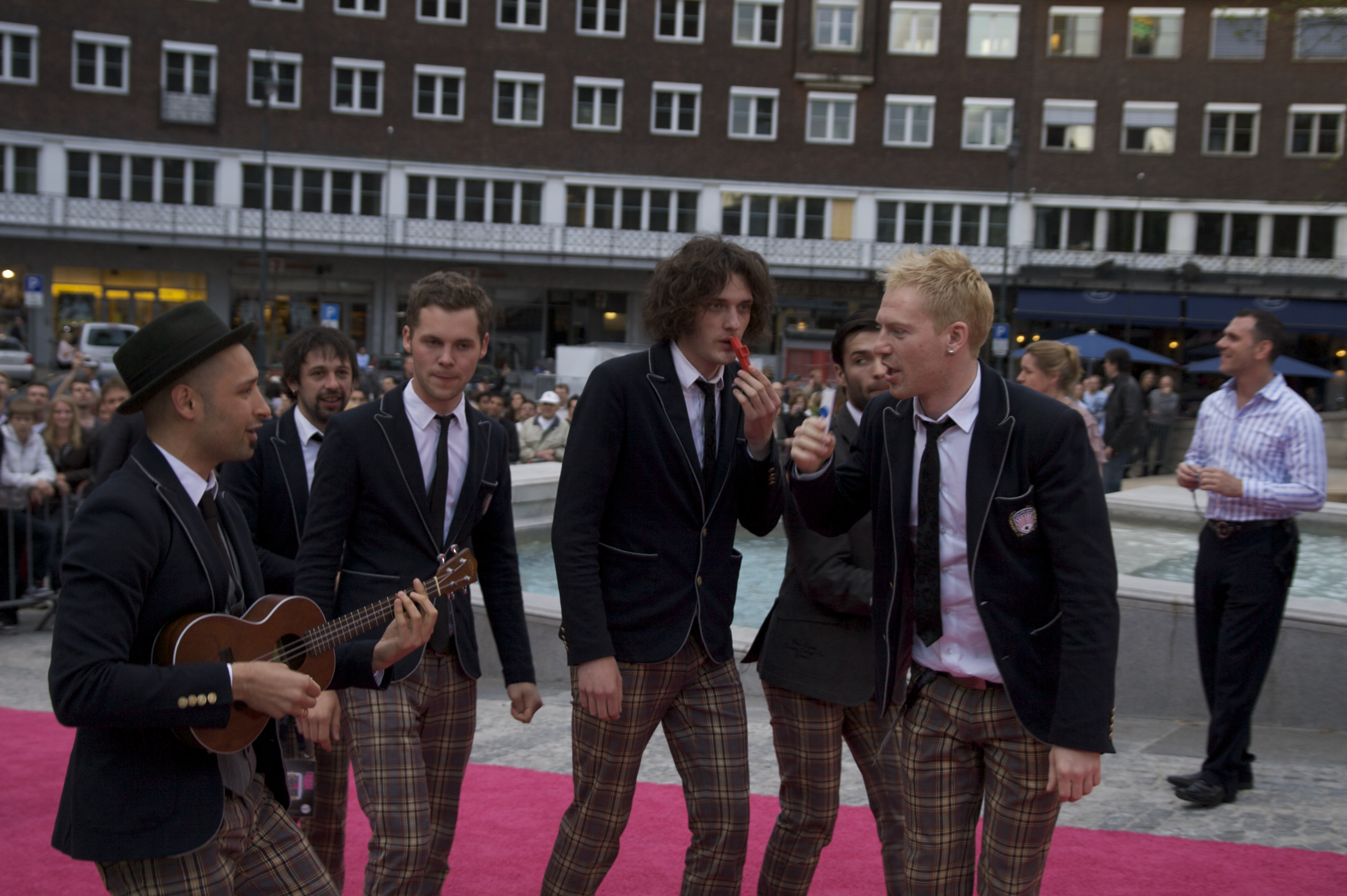 InCulto music group representing Lithuania at Eurovision Song Contest 2010 in Oslo, Norway.